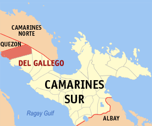 Map of Camarines Sur showing the location of Del Gallego